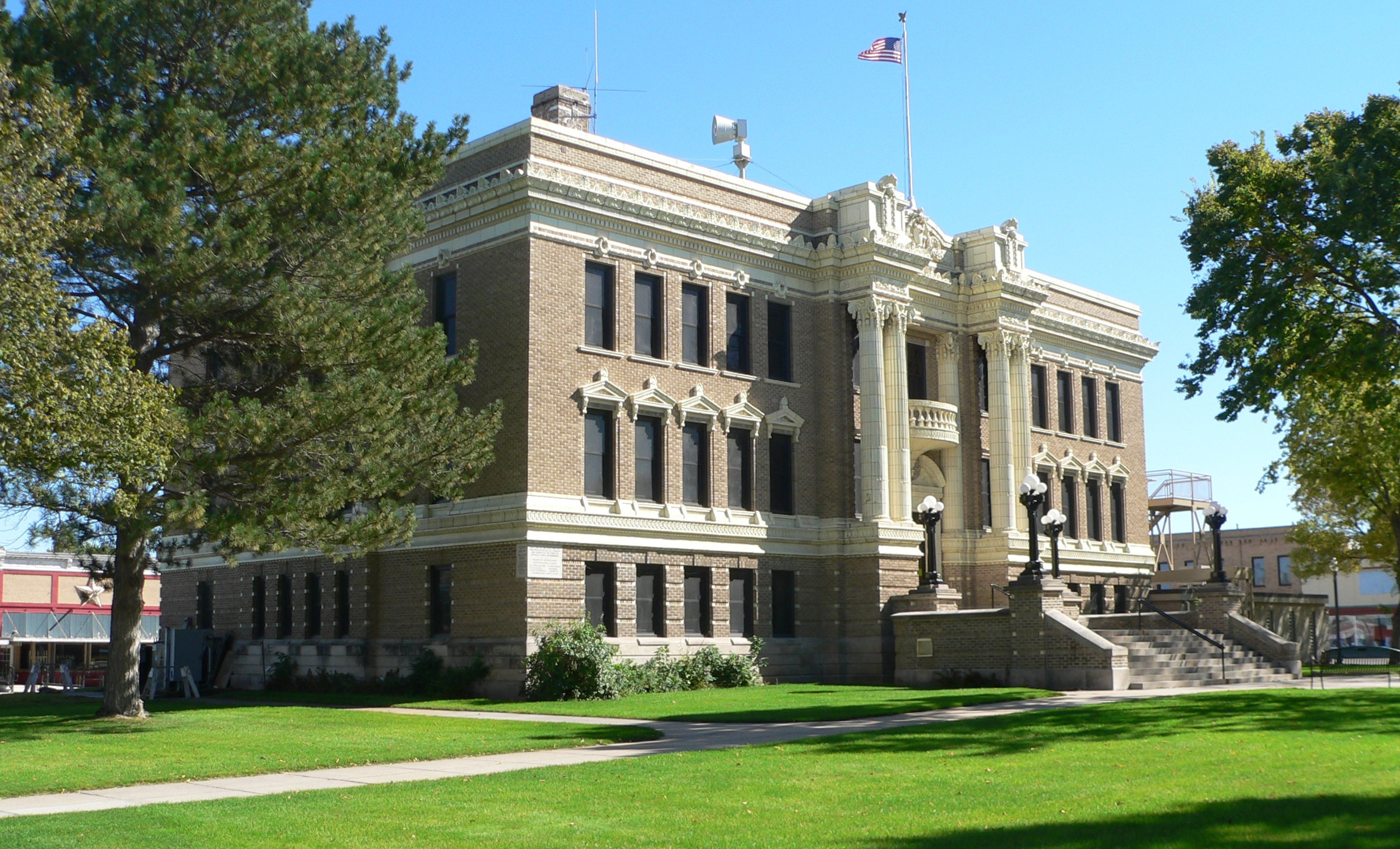 Valley County Courthouse in Ord, Nebraska; seen from the northwest. The Beaux-Arts building was constructed in 1920. It is listed in the National Register of Historic Places.